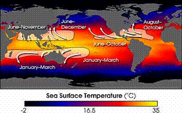 David Roth Hydrometeorological Prediction Center Camp Springs, MD